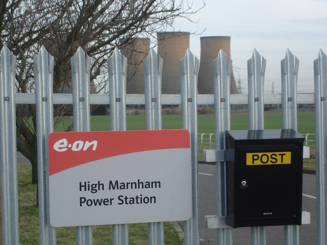 Former Entrance to High Marnham PS Former entrance with postbox! Cooling towers in background